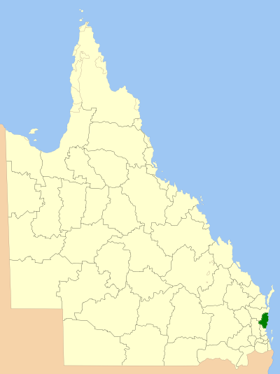 Location of the Local Government Area in Queensland